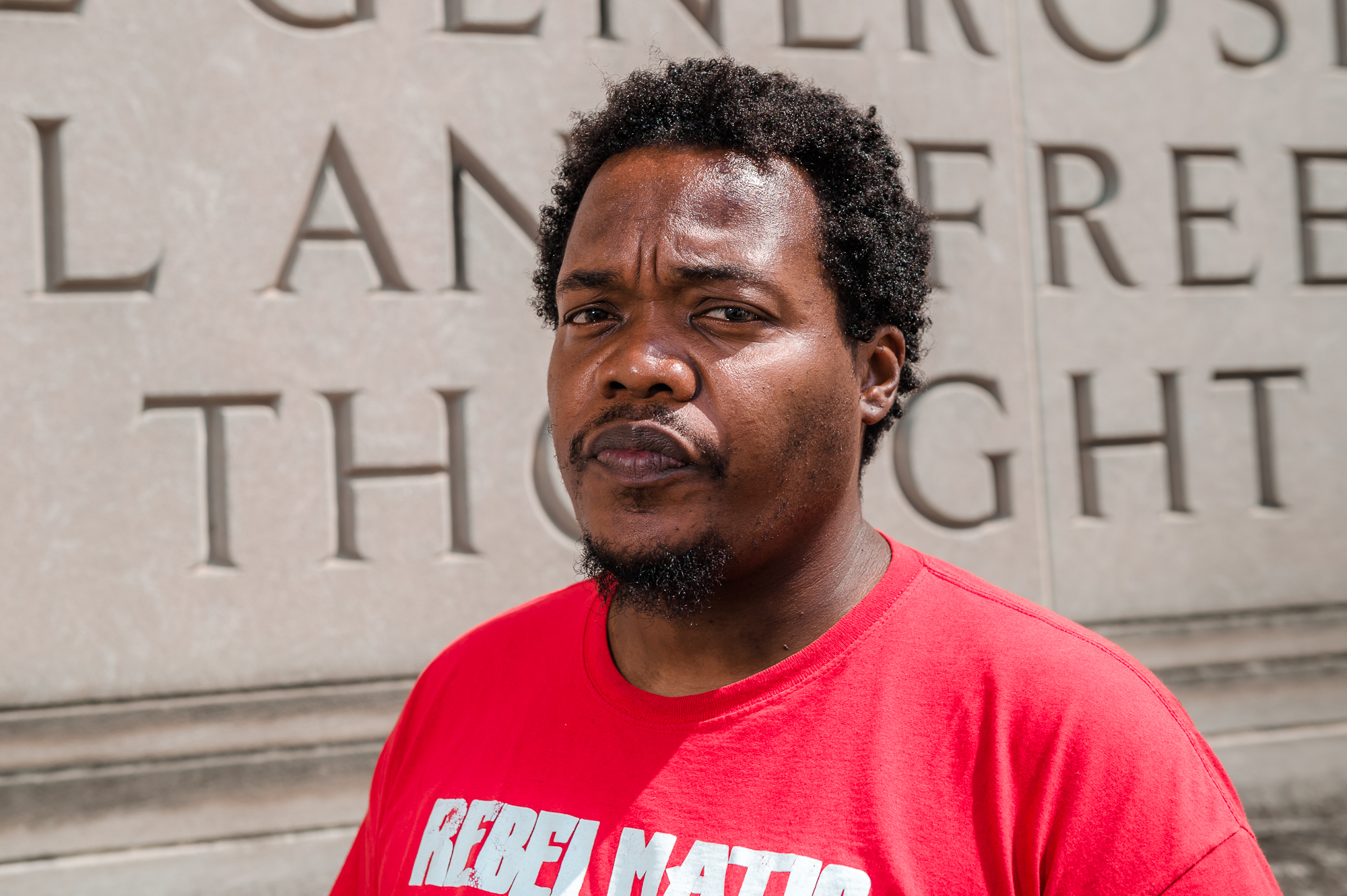 NYC-based alternative underground hip hop rap artist